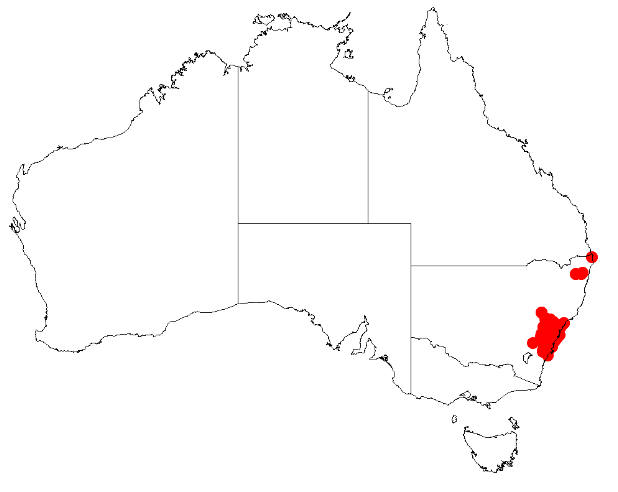 Acacia echinula Occurrence data from Australasia Virtual Herbarium downloaded from on 8 December 2018